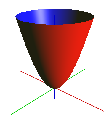 Rotation paraboloid.